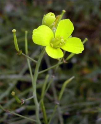 Diplotaxis tenuifolia Source : [1]